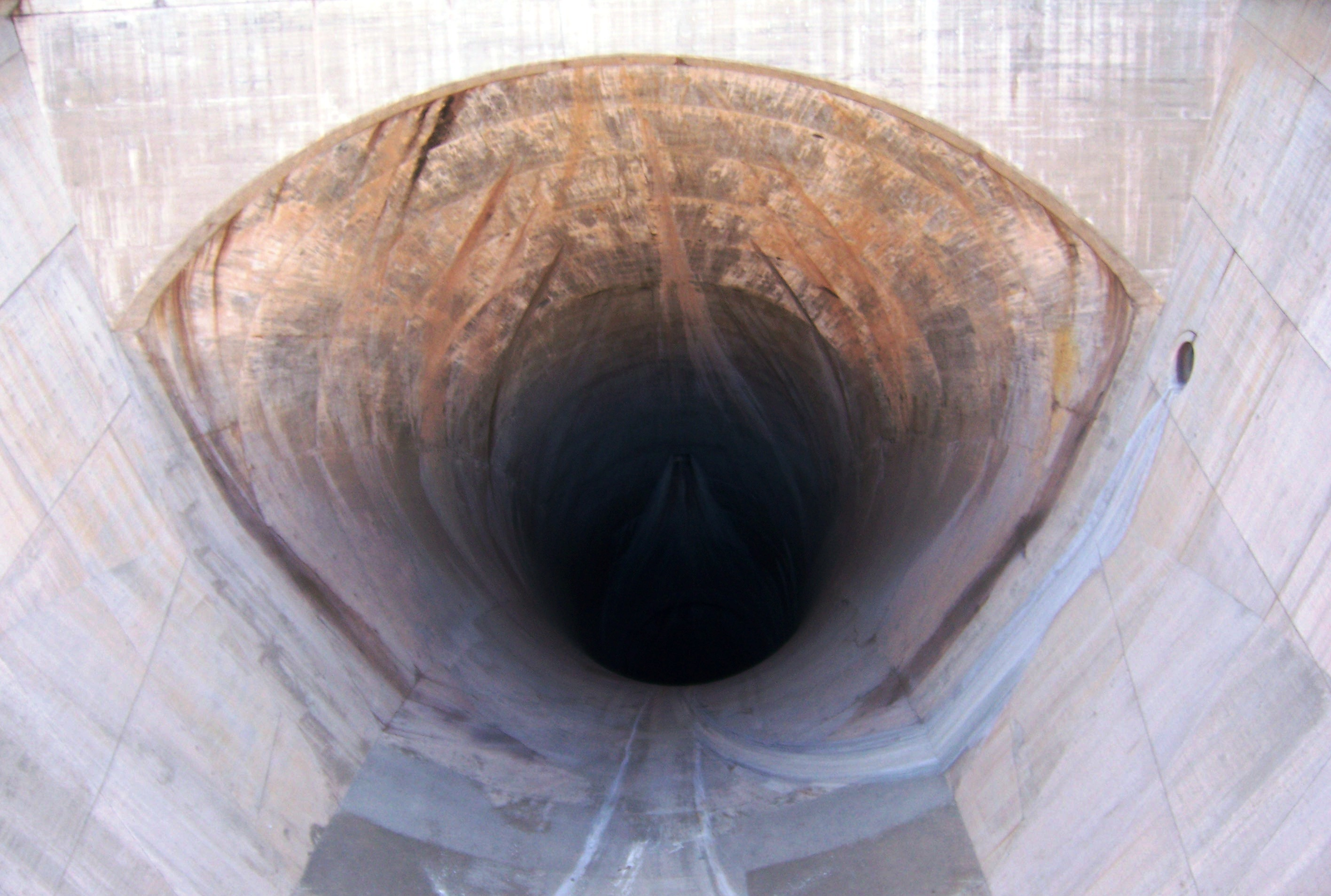 Arizona side spillway of Hoover Dam - build to prevent water to go over the dam in case of high water level.